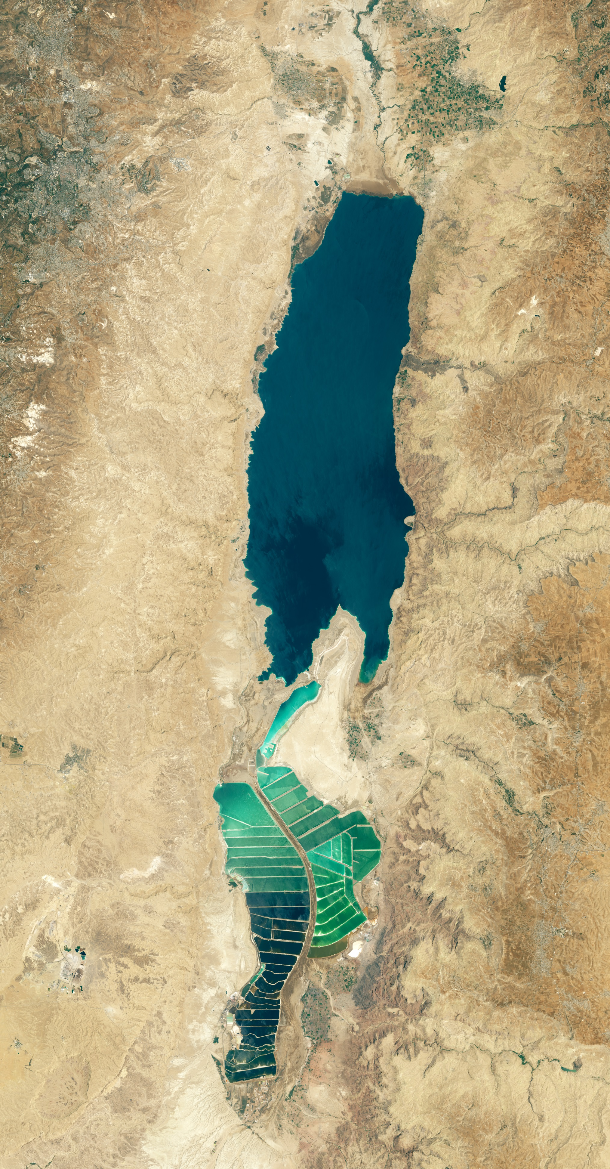 This true-color image of the Dead Sea was taken on September 10, 2000, by the MODerate-resolution Imaging Spectroradiometer (MODIS) flying aboard NASA's Terra spacecraft. Image courtesy Jacques Descloitres, MODIS Land Group, NASA GSFC